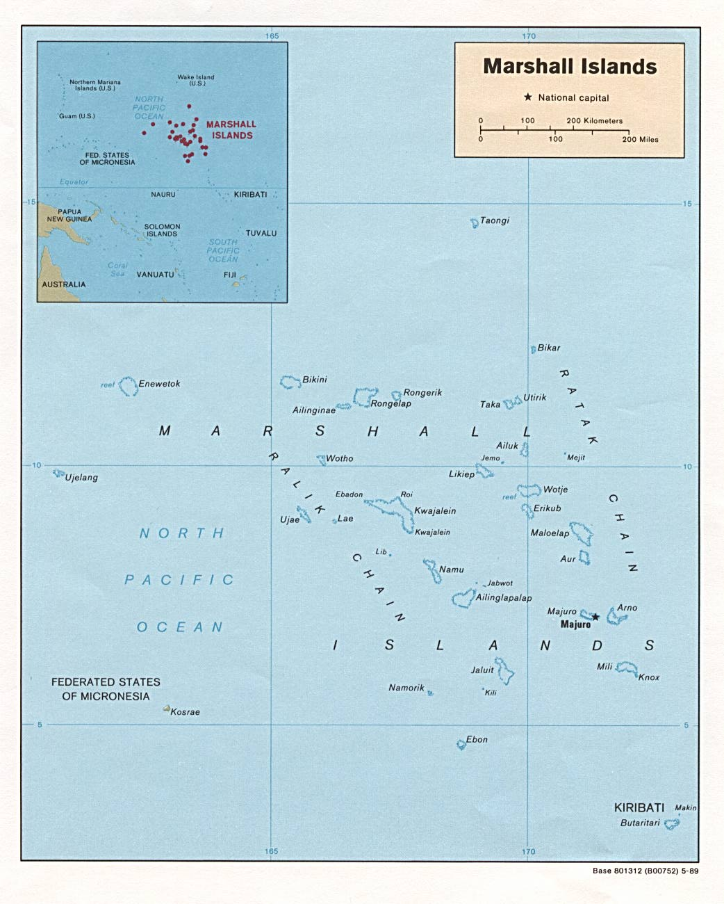 map of RMI